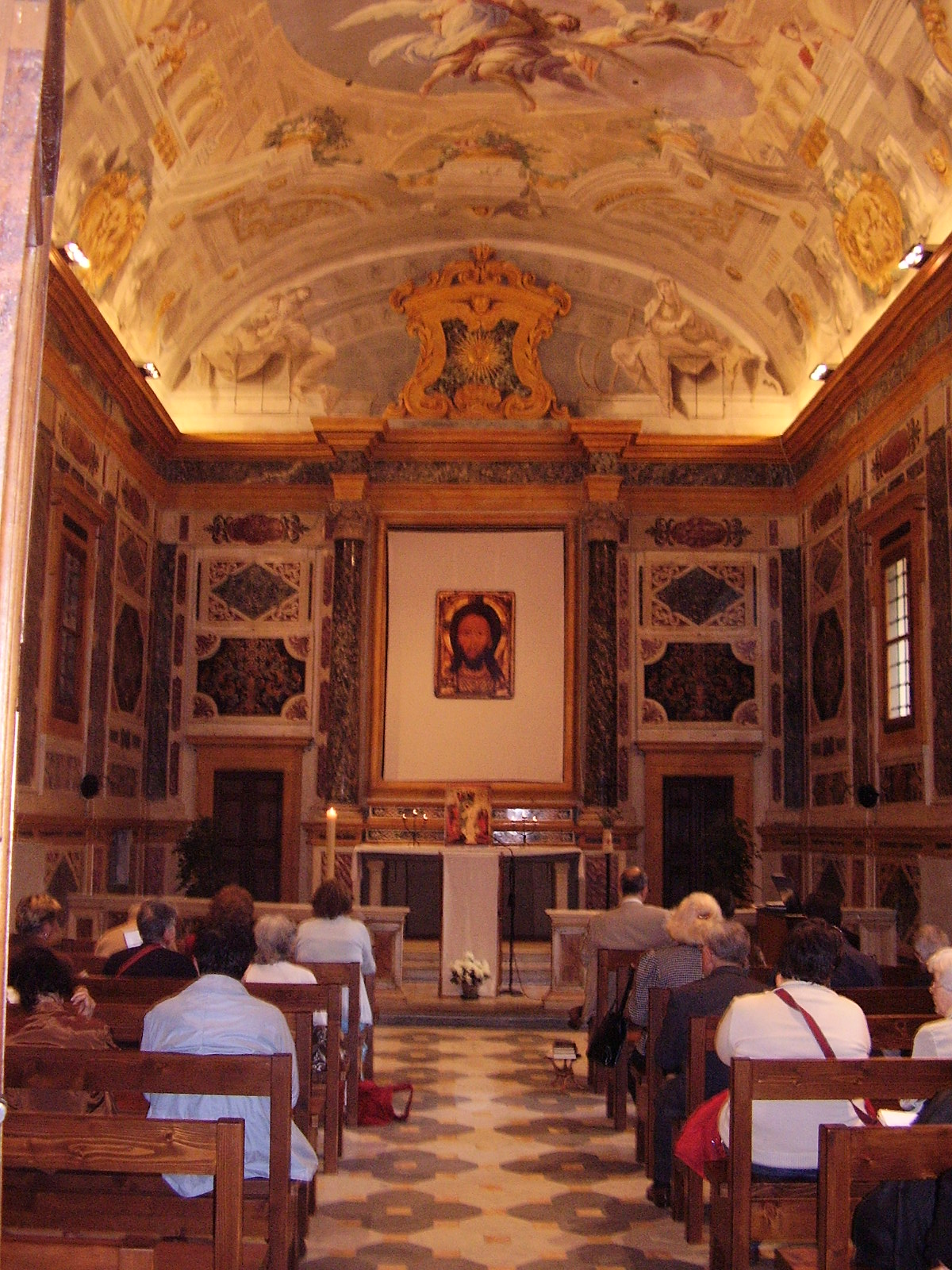 Oratorio di San Tommaso, church, inside view, from Florence, Italy